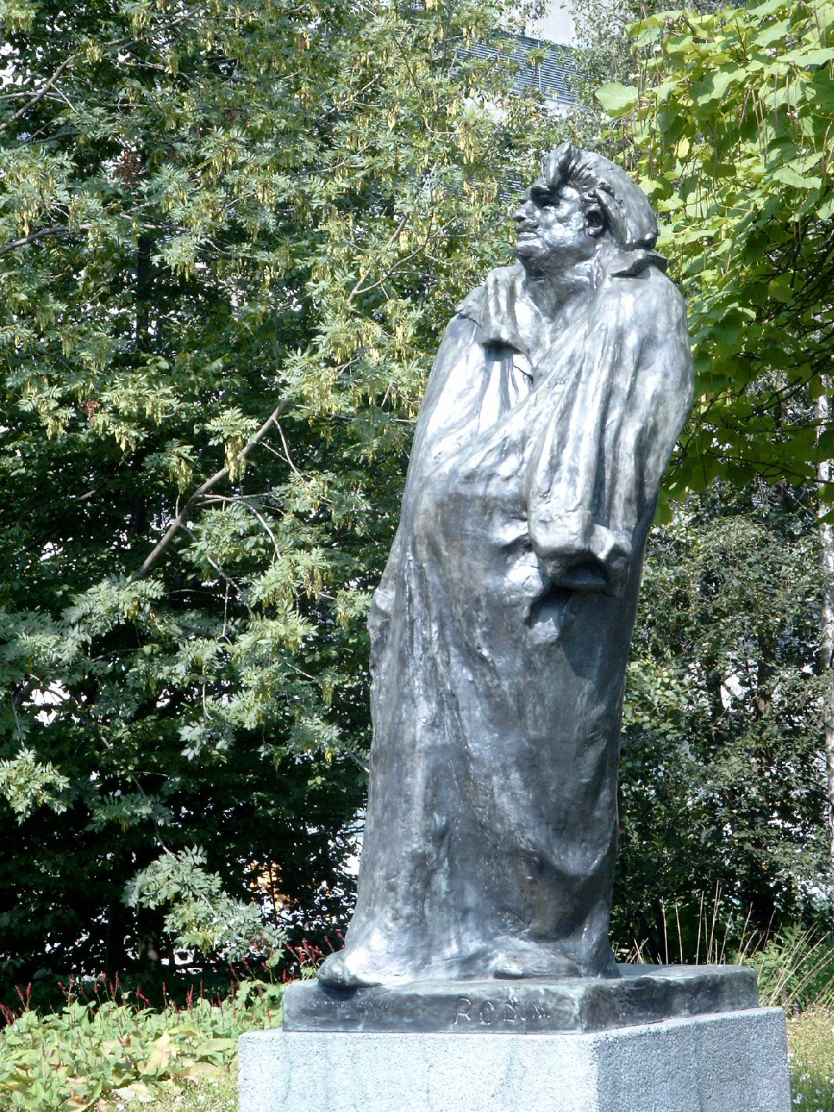 Honoré de Balzac by Auguste Rodin